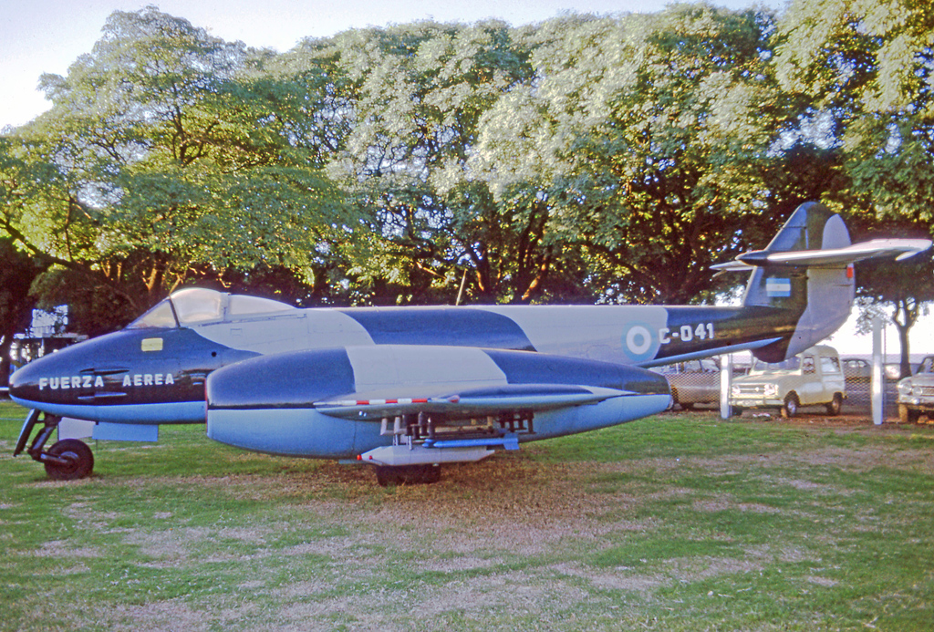 Gloster Meteor F.4 C-041 of the Argentine Air Force preserved at Buenos Aires Aeroparque in 1975